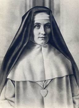 Portrait of Blessed Sister Mary of the Divine Heart Droste zu Vischering, Mother Superior of the Convent of the Good Shepherd Sisters in Porto (1896).